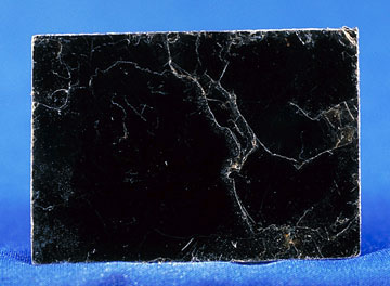 Biotite slice (potassium, iron, magnesium, aluminum, and silicate hydroxide)